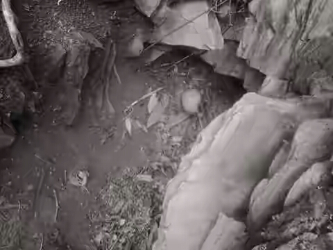 The tomb at Dimpi